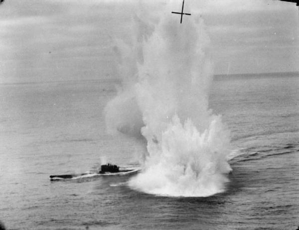 Depth charges dropped by 422 Squadron RCAF Sunderland EK591 "U" explode around the stern of U-625 on 10 March 1944. The boat managed to dive, but the aircraft remained in the area and about 90 minutes later it resurfaced and flashed the signal "fine bombish" before the crew abandoned ship and it sank. Survivors made their way to life rafts but were lost the next day in a storm. For the action, pilot Butler was awarded the DFC. As the only photographed success by an RCAF crew against the U-boats, a photo from this series was displayed by Churchill in his office.